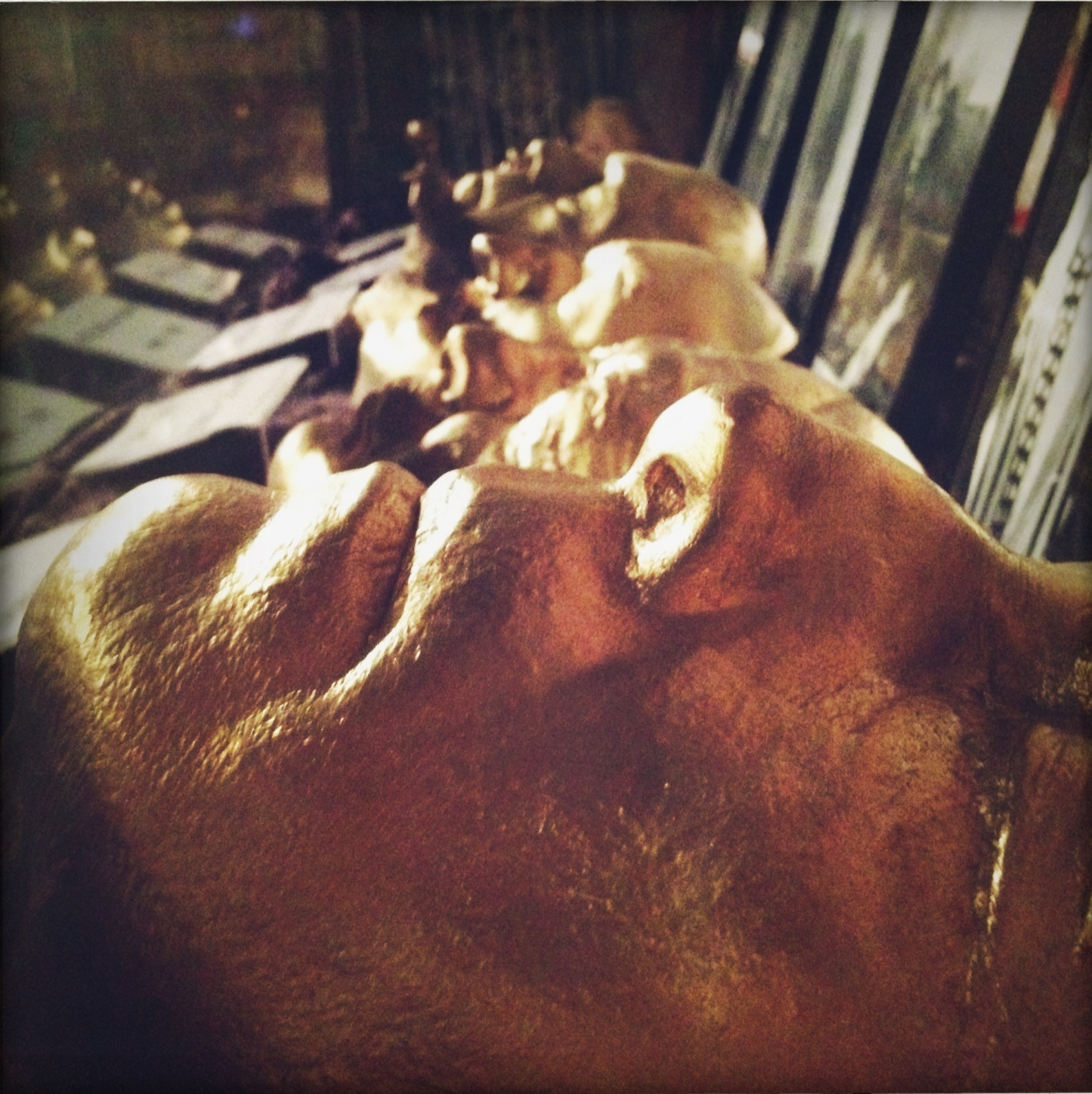 Horror film stars' face molds displayed at The Hollywood Museum, 1660 N. Highland Ave (at Hollywood Blvd), Hollywood, California, USA.